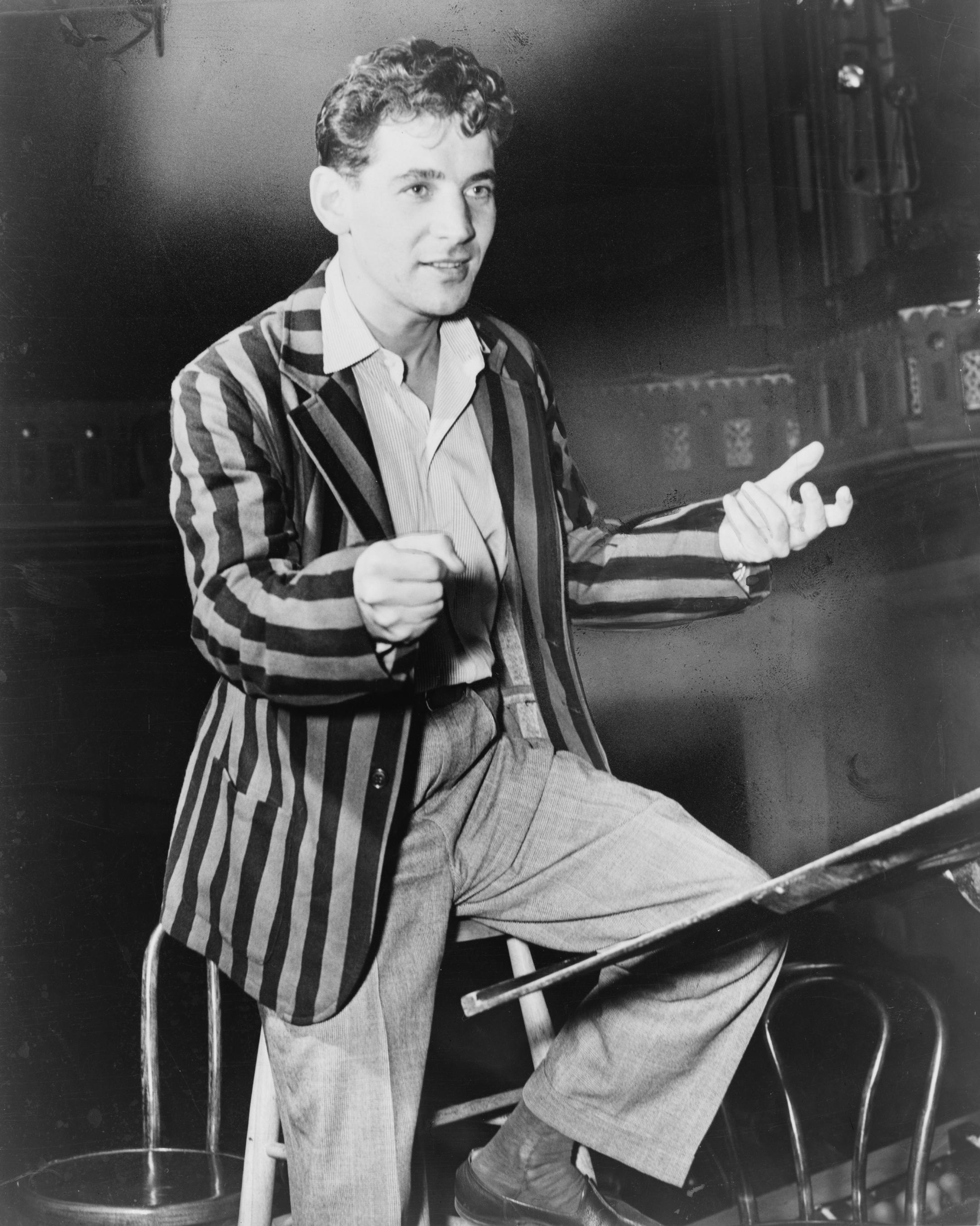 Leonard Bernstein, conductor and musical director of New York City Symphony